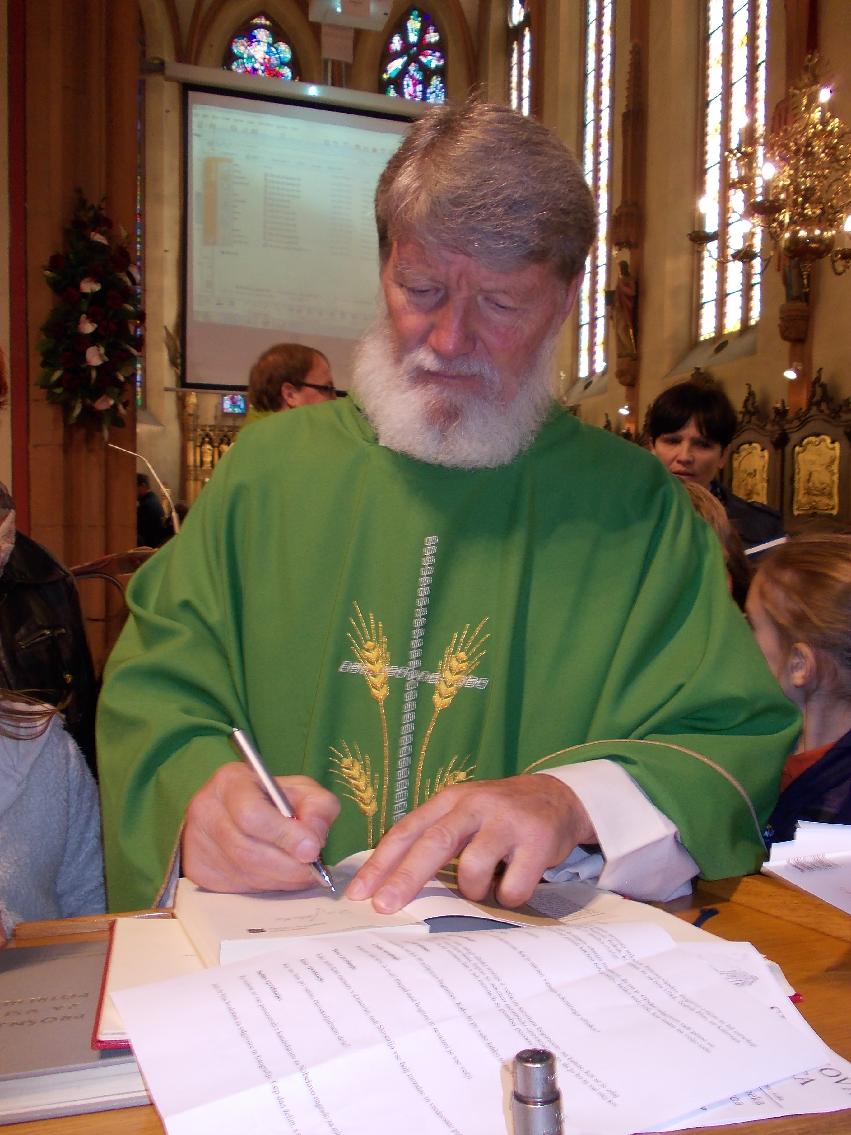 Pedro Opeka in Maribor Cathedral, October 25 2015.